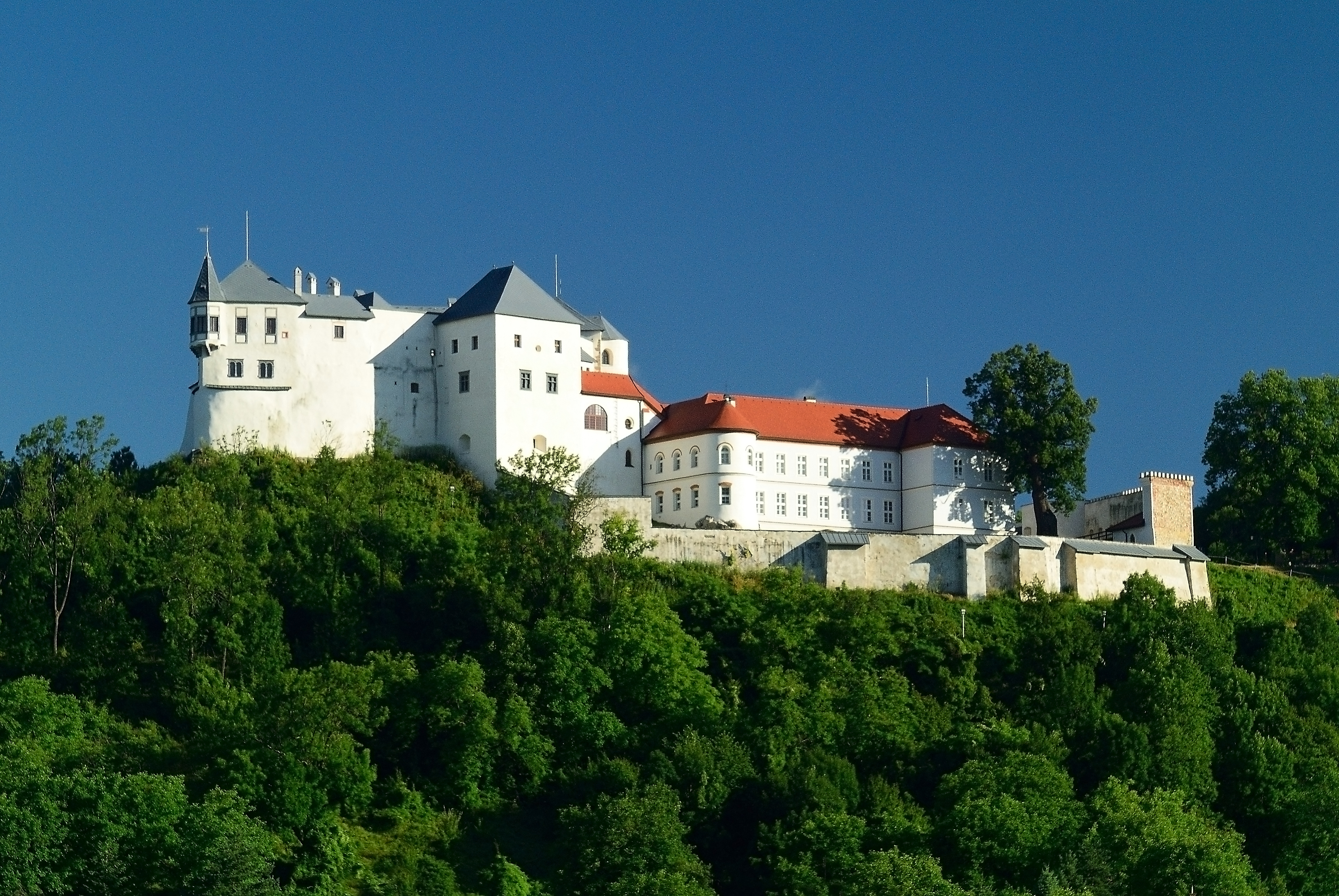 Historical Lupca castle in Slovakia